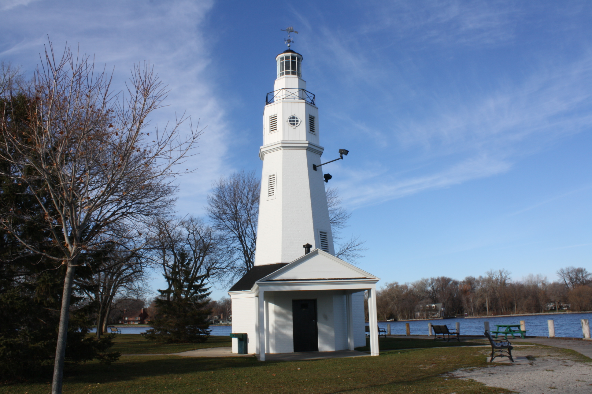 The Neenah Light in Neenah, Wisconsin, marking the entrance of the Lower Fox River from Lake Winnebago.